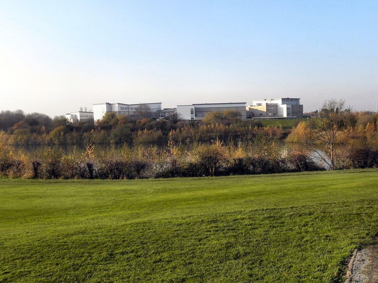 Wright Robinson Sports College